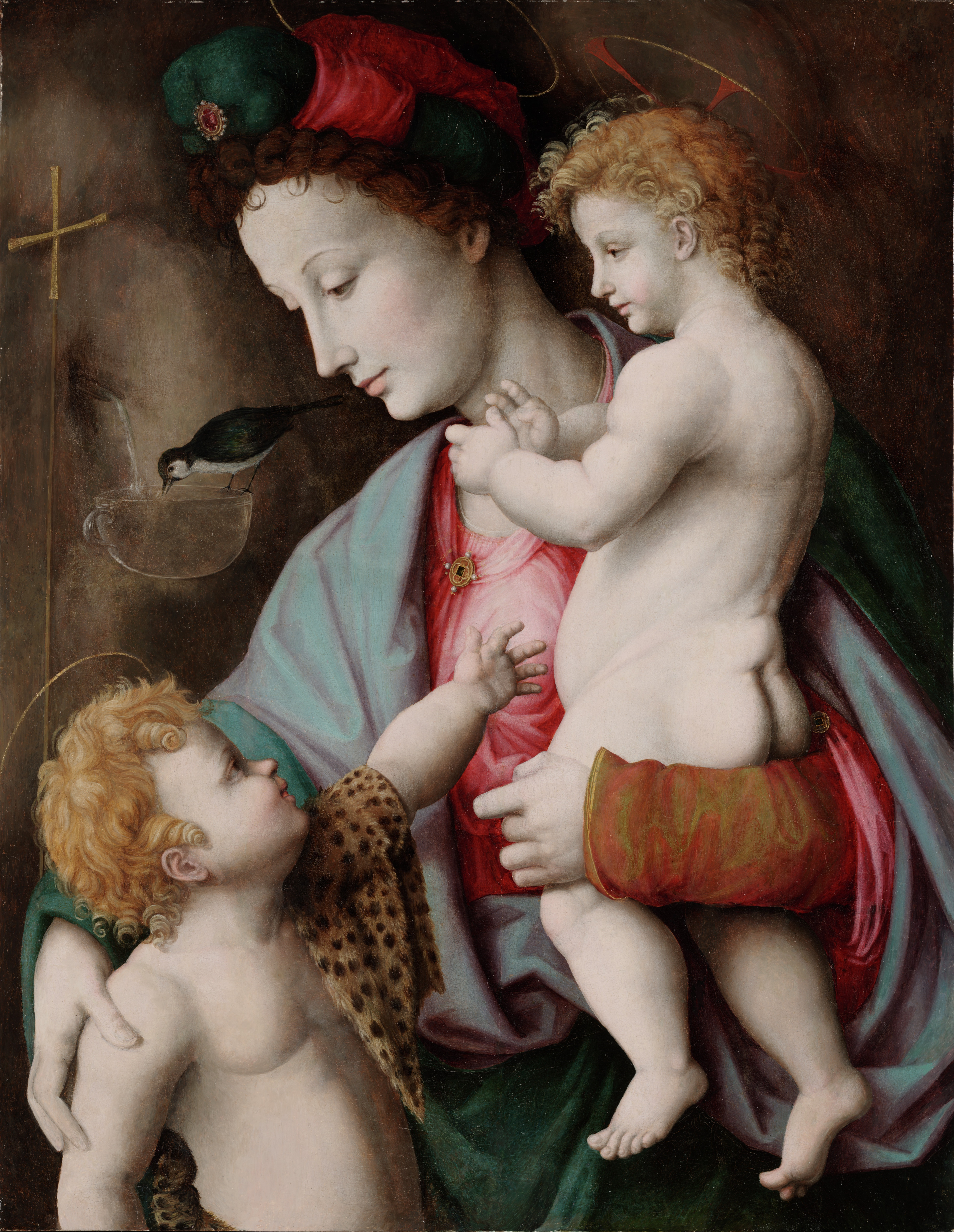 After restoration